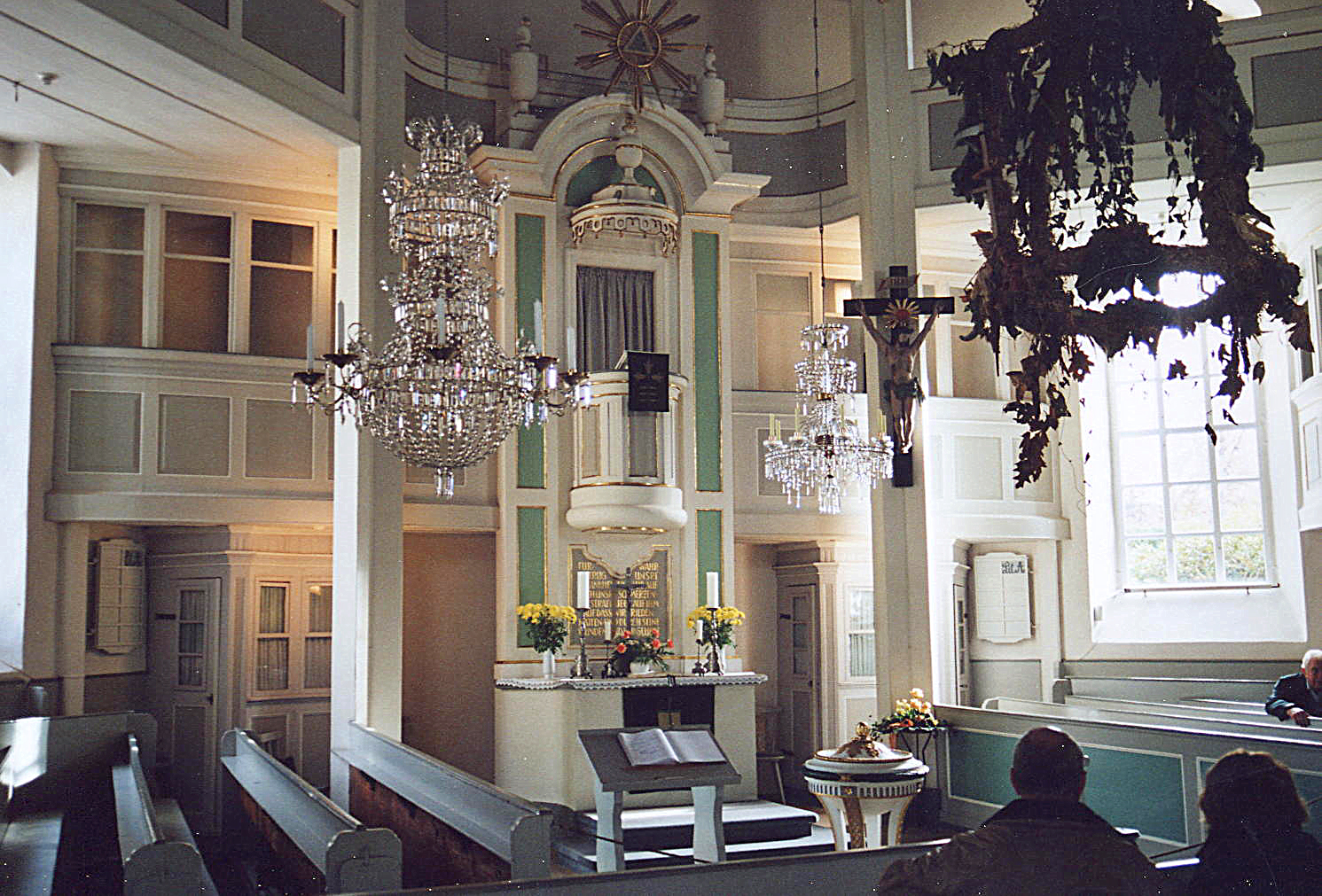 This image shows the interior of the church of Seiffen in the Ore Mountains in Saxony, Germany.